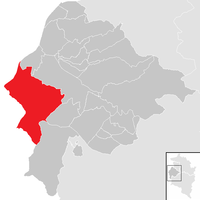 District Feldkirch